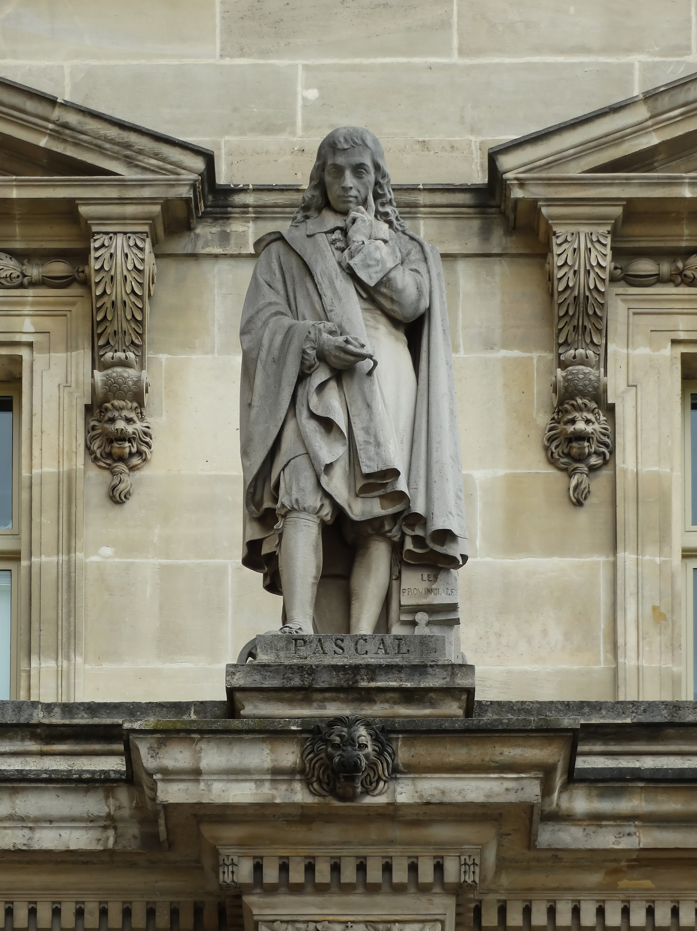 Found on Aile en retour Turgot of the Louvre in Paris this was created by Francois Lanno, depicting Blaise Pascal who was famous for his mechanical calculator.